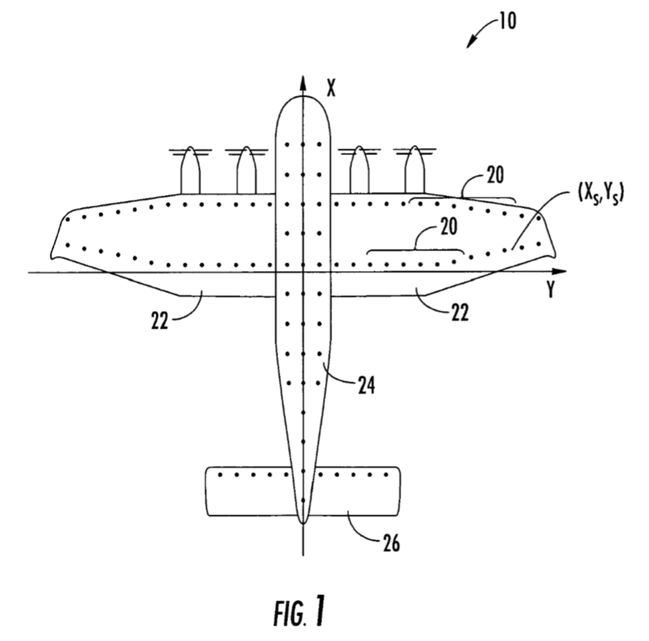 The locations of altitude measuring sensors under the fuselage and wings of the Boeing Pelican. These sensors to automatically determine how low the aircraft can fly above the water.